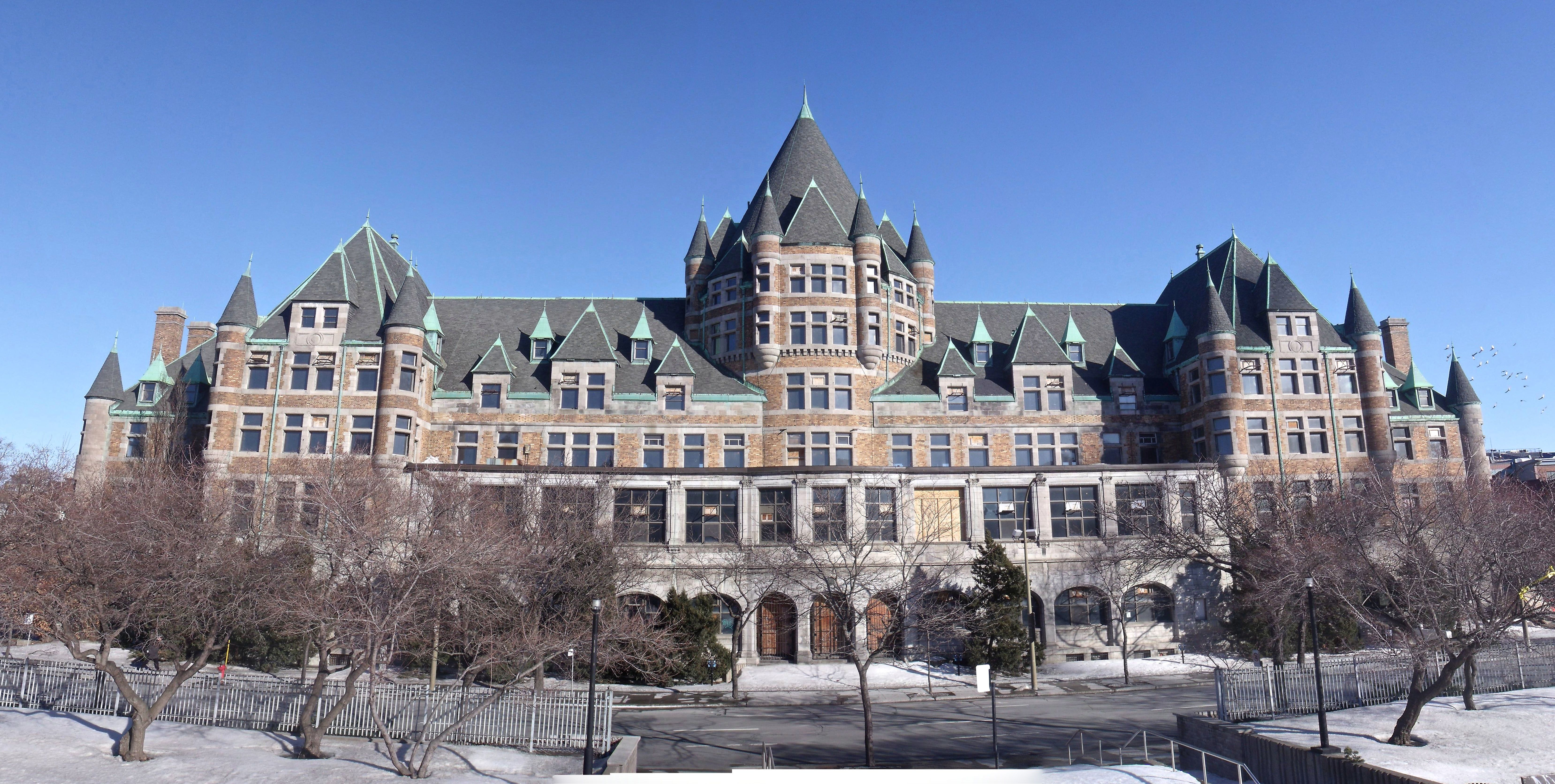 Jacques-Viger Building, 700 Saint-Antoine Street East, Montreal, Quebec, Canada.